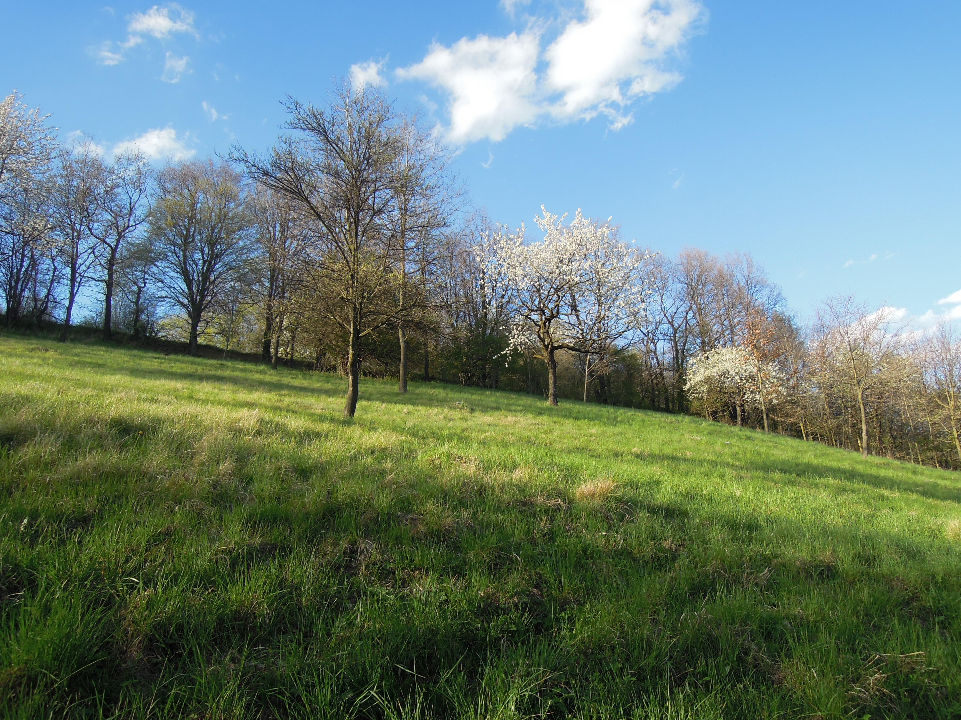 Choryňská stráž natural monument in Choryně, Vsetín District, Zlín Region, Czech Republic